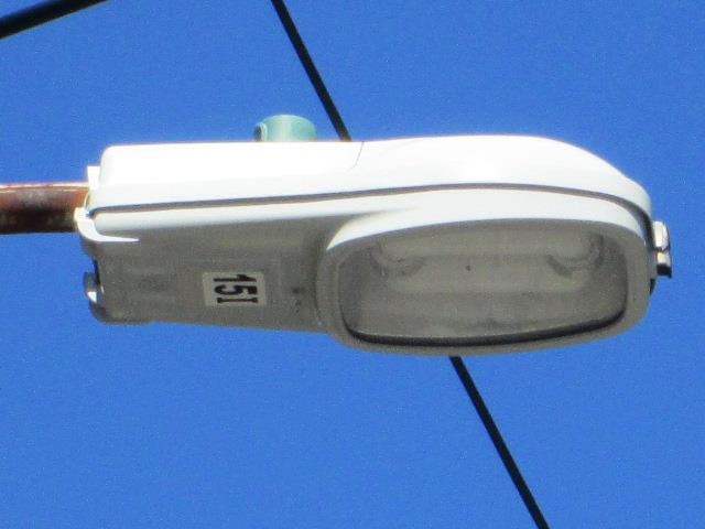 History of street lighting